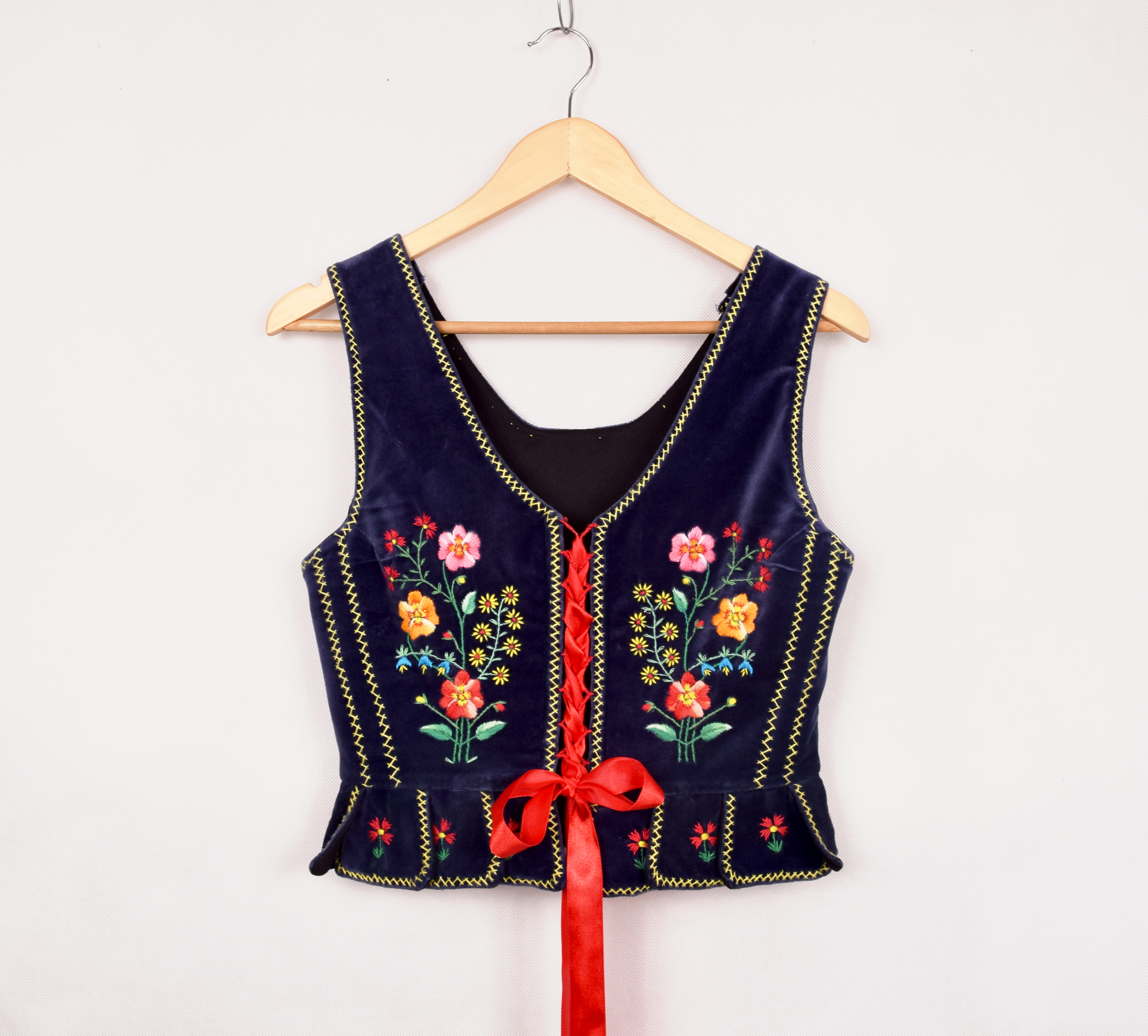 Vest bodice in traditional Żywiec Beskids style by Jadwiga Jurasz